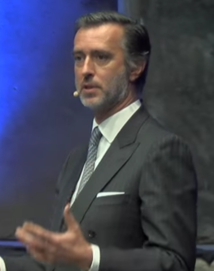 João Cotrim de Figueiredo speaks at the 2015 Forum Alpha